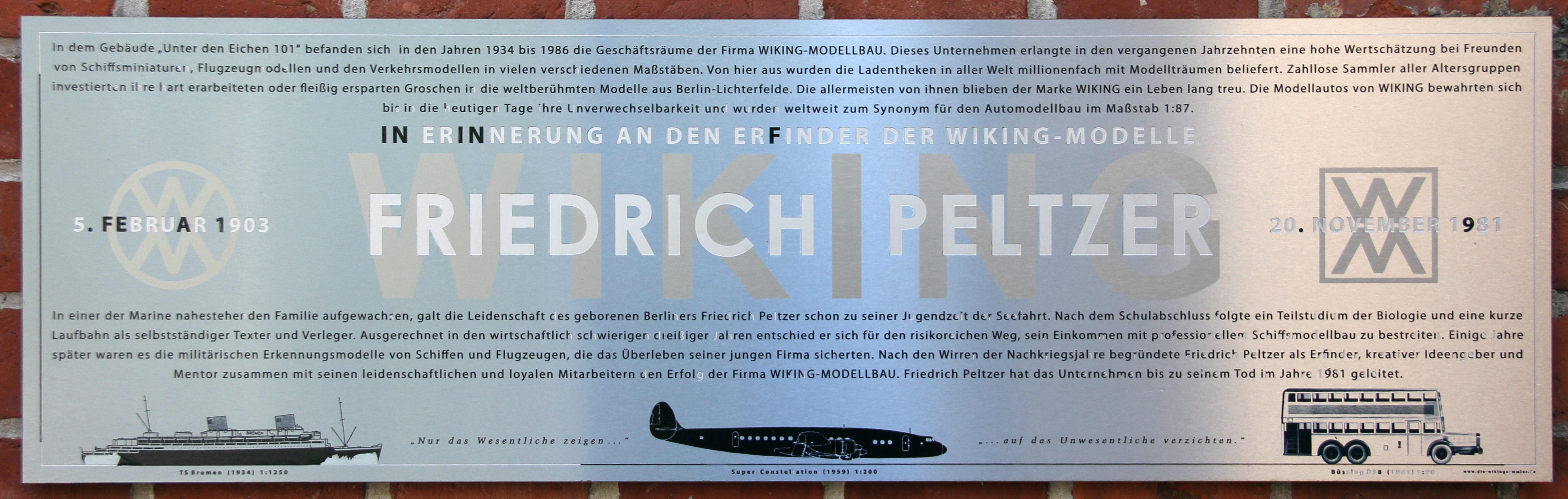 Memorial plaque, Friedrich Peltzer, Unter den Eichen 101, Berlin-Lichterfelde, Germany